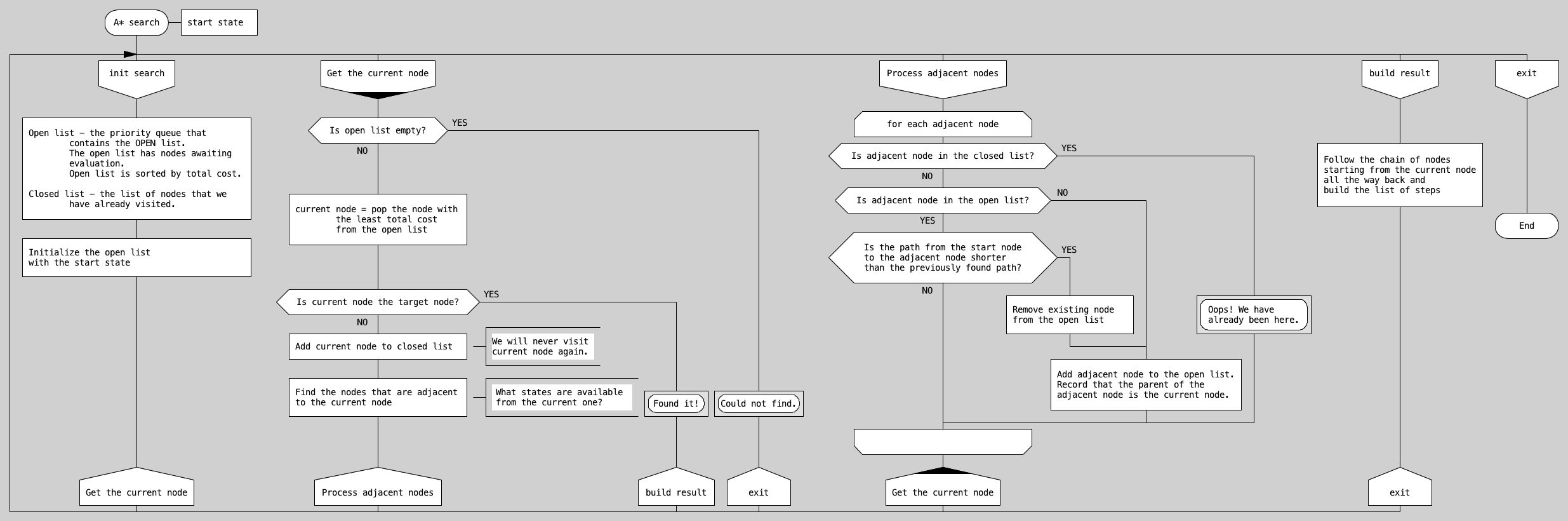 The DRAKON chart for the A* search algorithm.